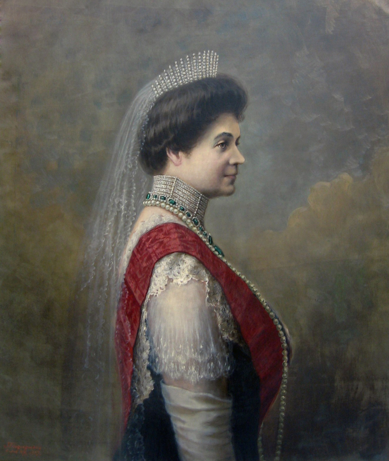 Tasritsa Eleonora of Bulgaria - oil painting of Георги Евстатиев